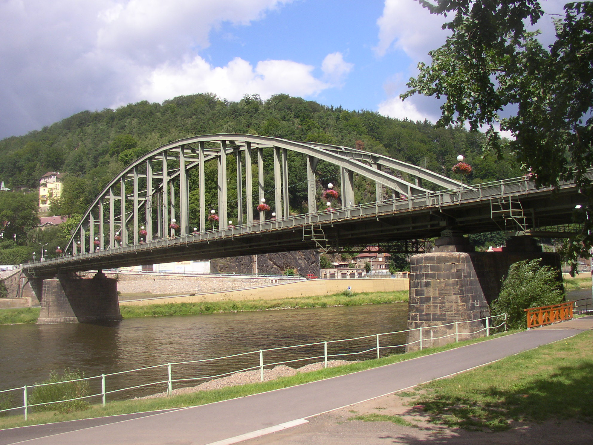 Tyrš Bridge over the Elbe in Děčín, Czech Republic.